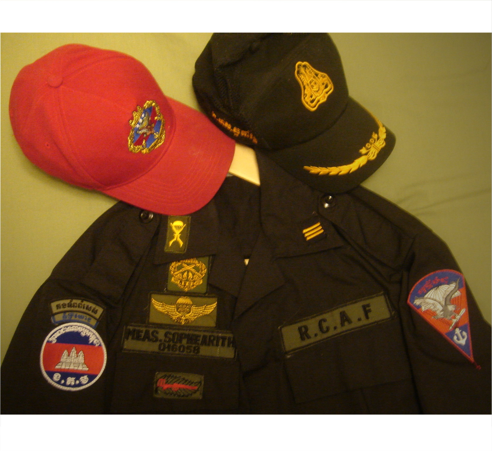 Uniform 911st Special Force Para-Commando